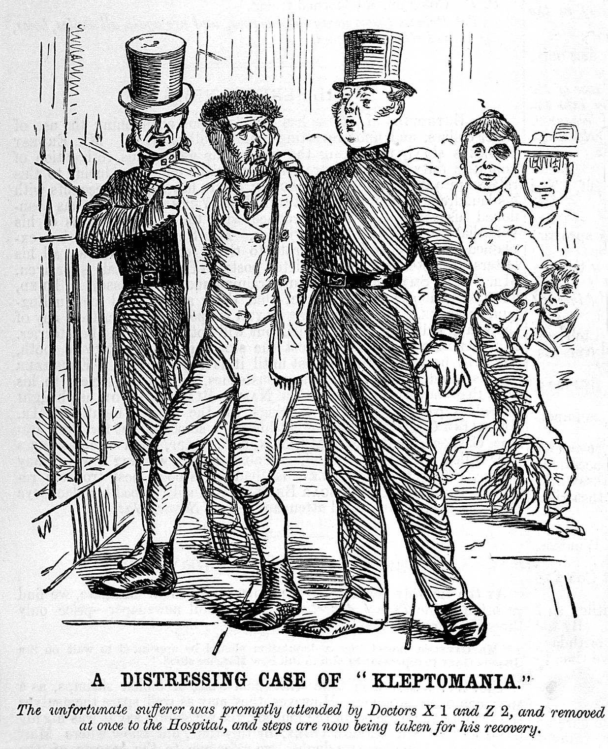 A distressing case of "Kleptomania". General Collections Keywords: caricature; kleptomania - satire; Police